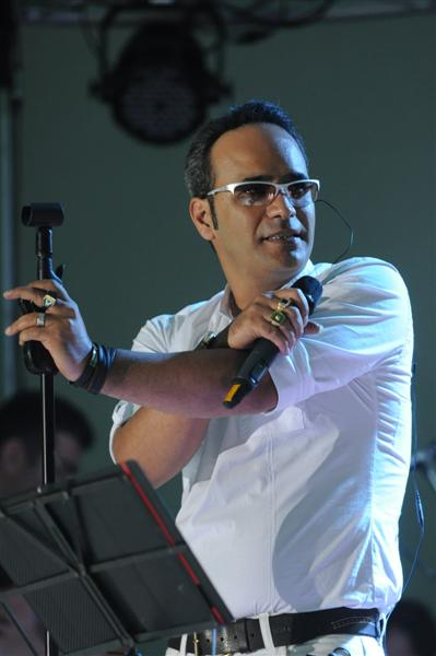 Shahram Shokoohi live in Concert in Rasht, Guilan, Iran